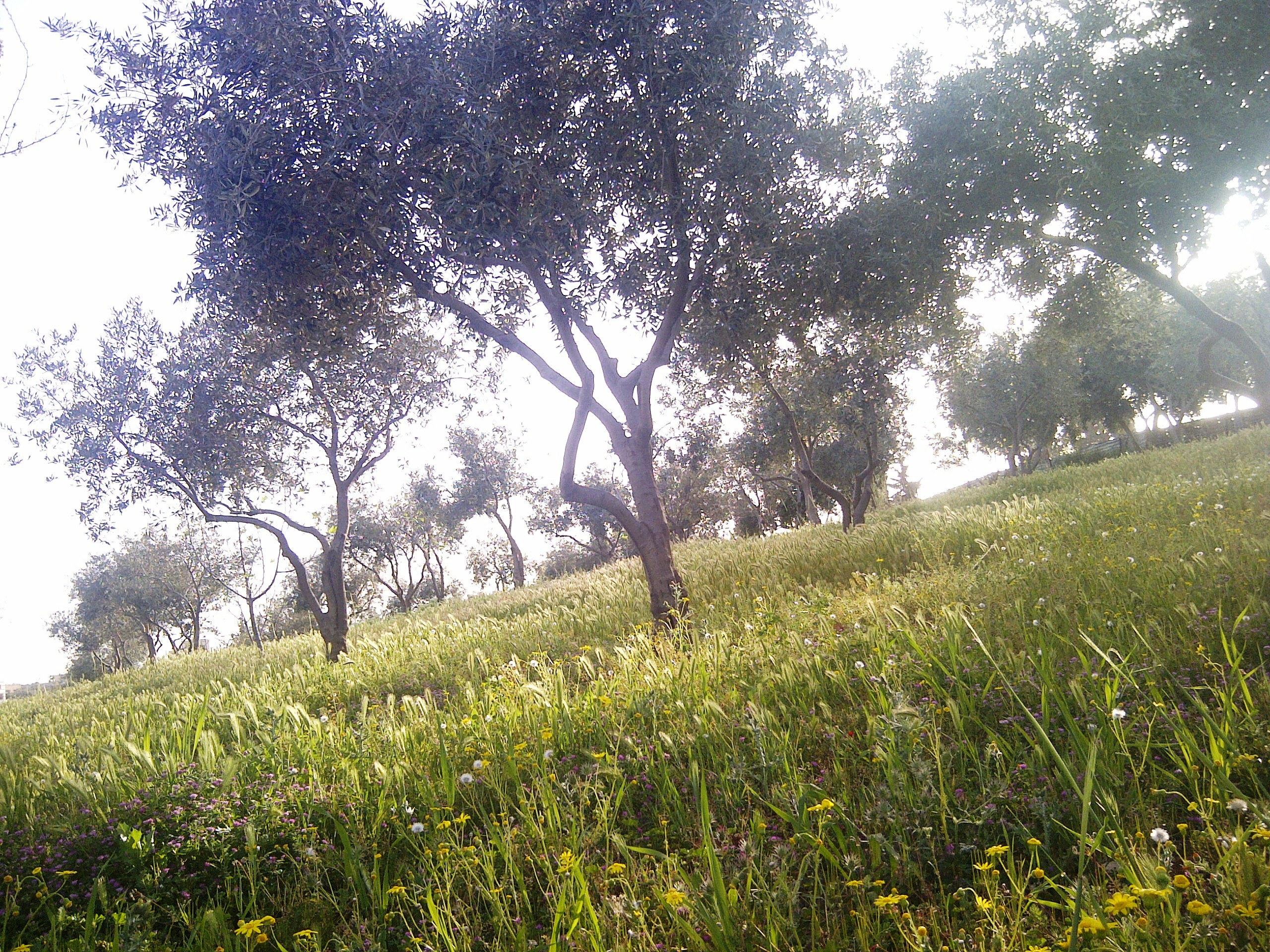 A scene from Naour in Spring 2012